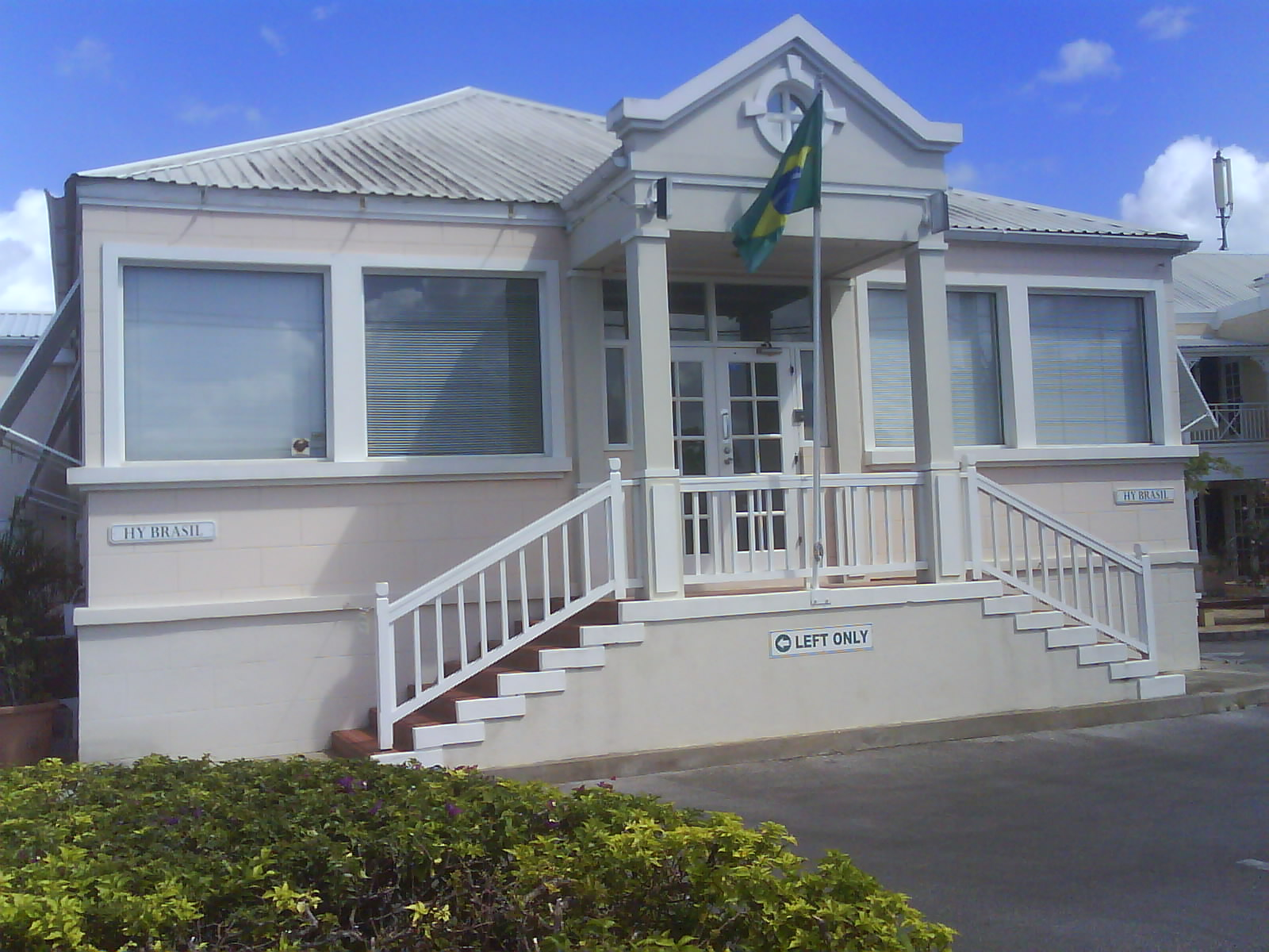 Building for the Brazilian Embassy at Bridgetown. Located on Hastings Main Road, Christ Church, Barbados.